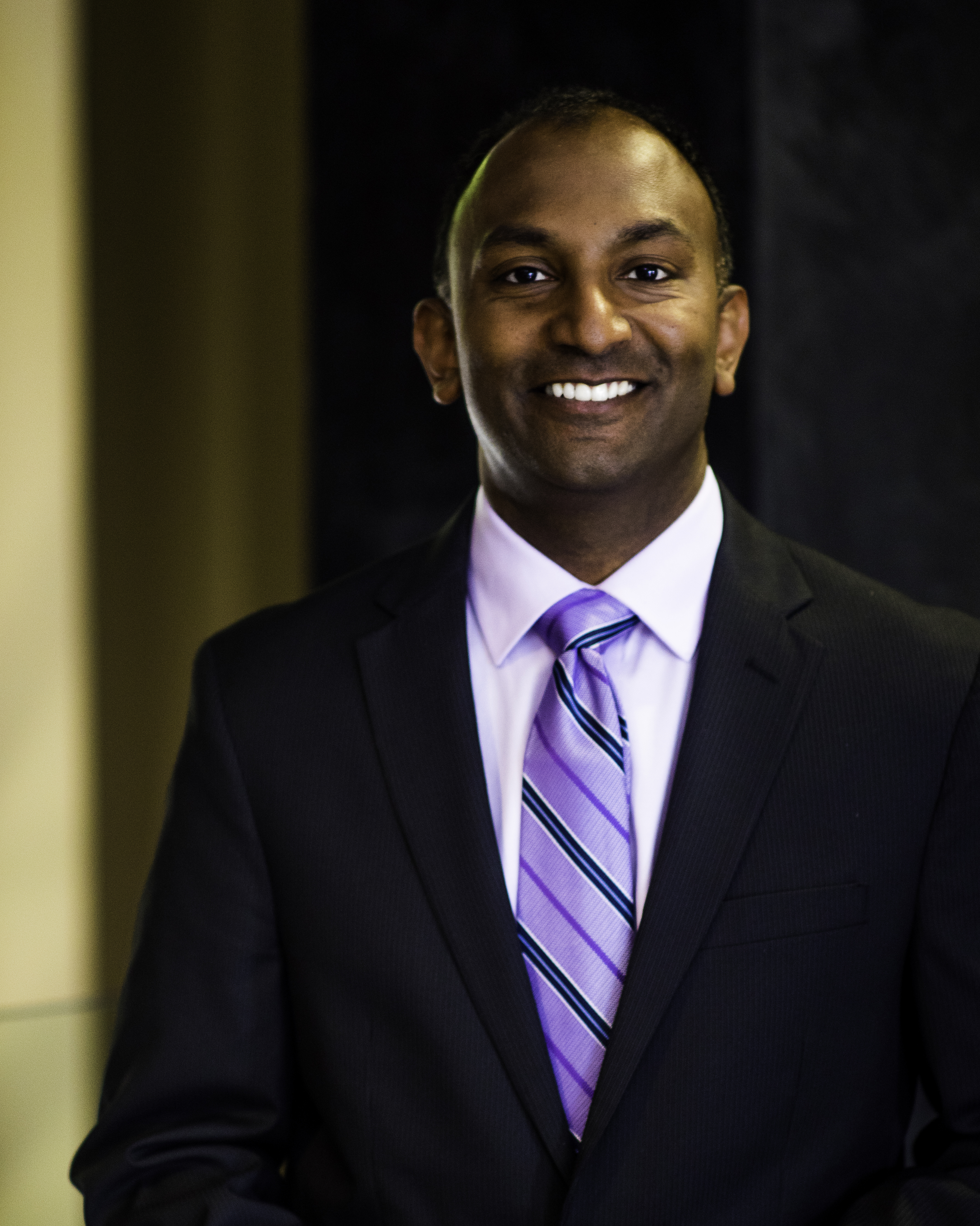 Portrait of Thiru Vignarajah